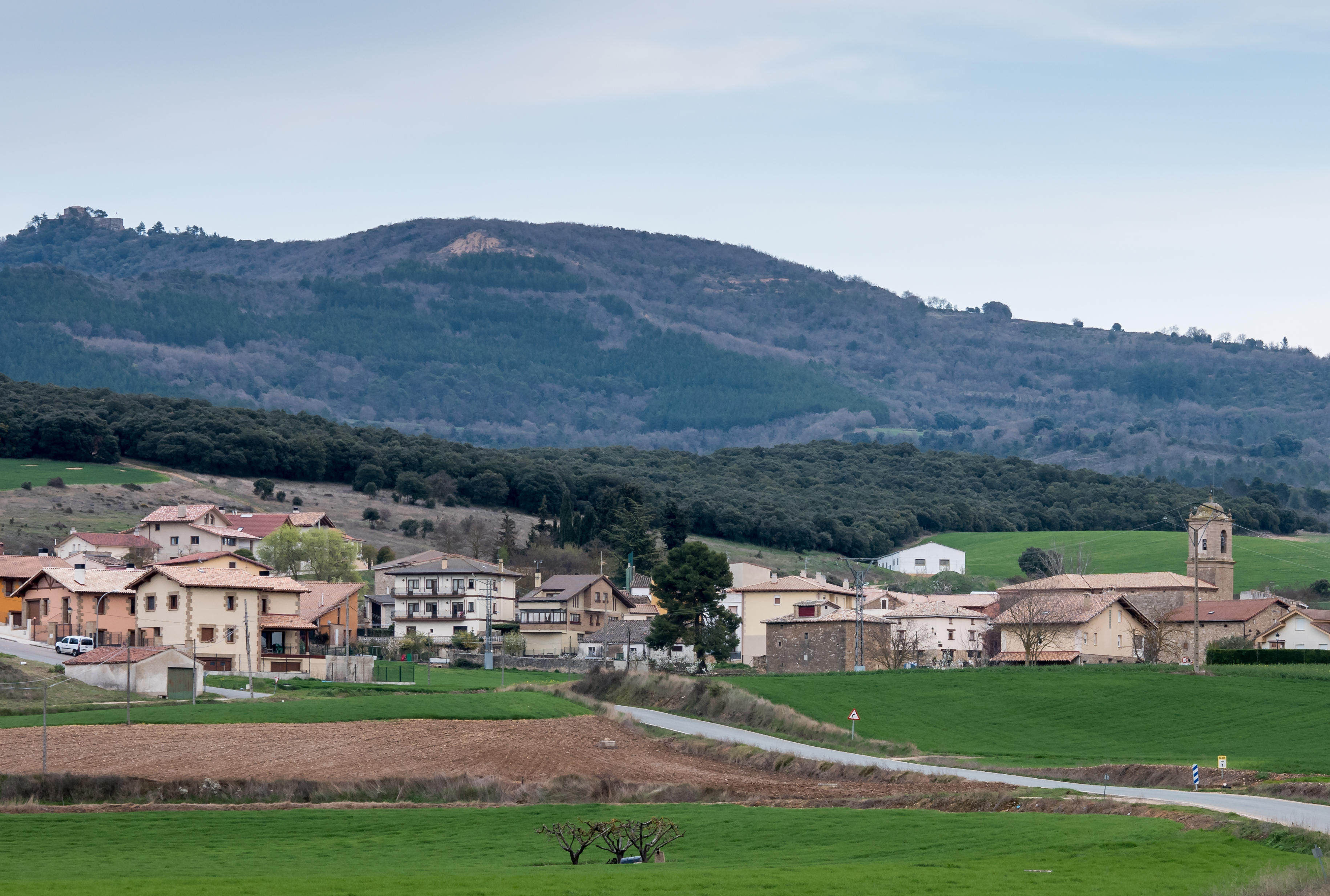 Abaigar viewed from the road. Navarre, Spain